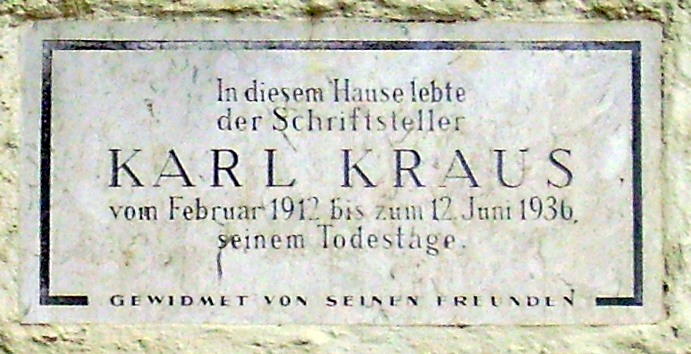 Karl Kraus, memorial plaque in Vienna, Lothringerstrasse 6